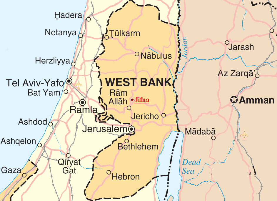 The location of Bethlehem in the West Bank, with major Israeli and Jordanian cities shown to show Bethlehem's relative location in the region.